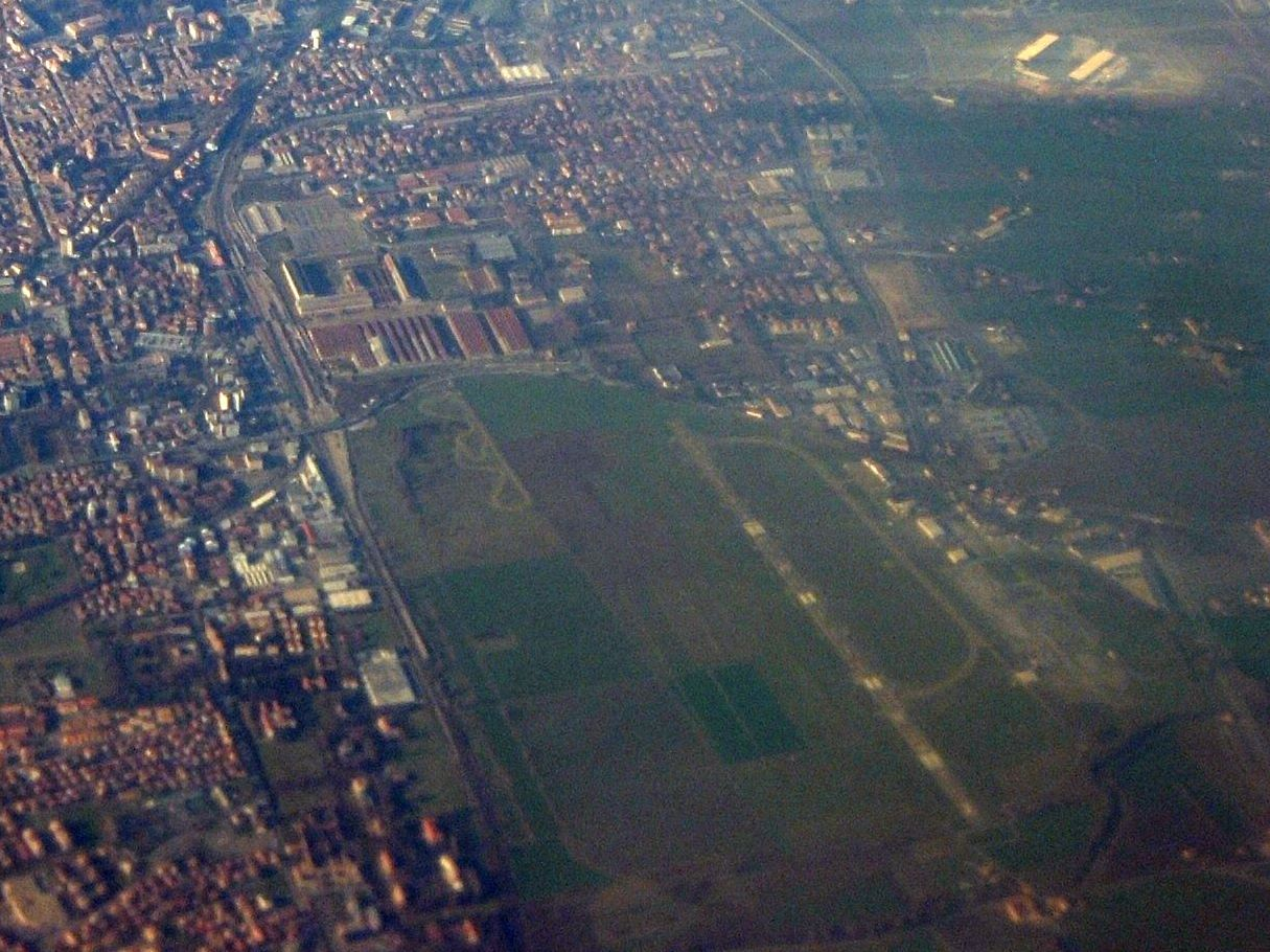 Aerial view of Reggio Emilia airport, Italy